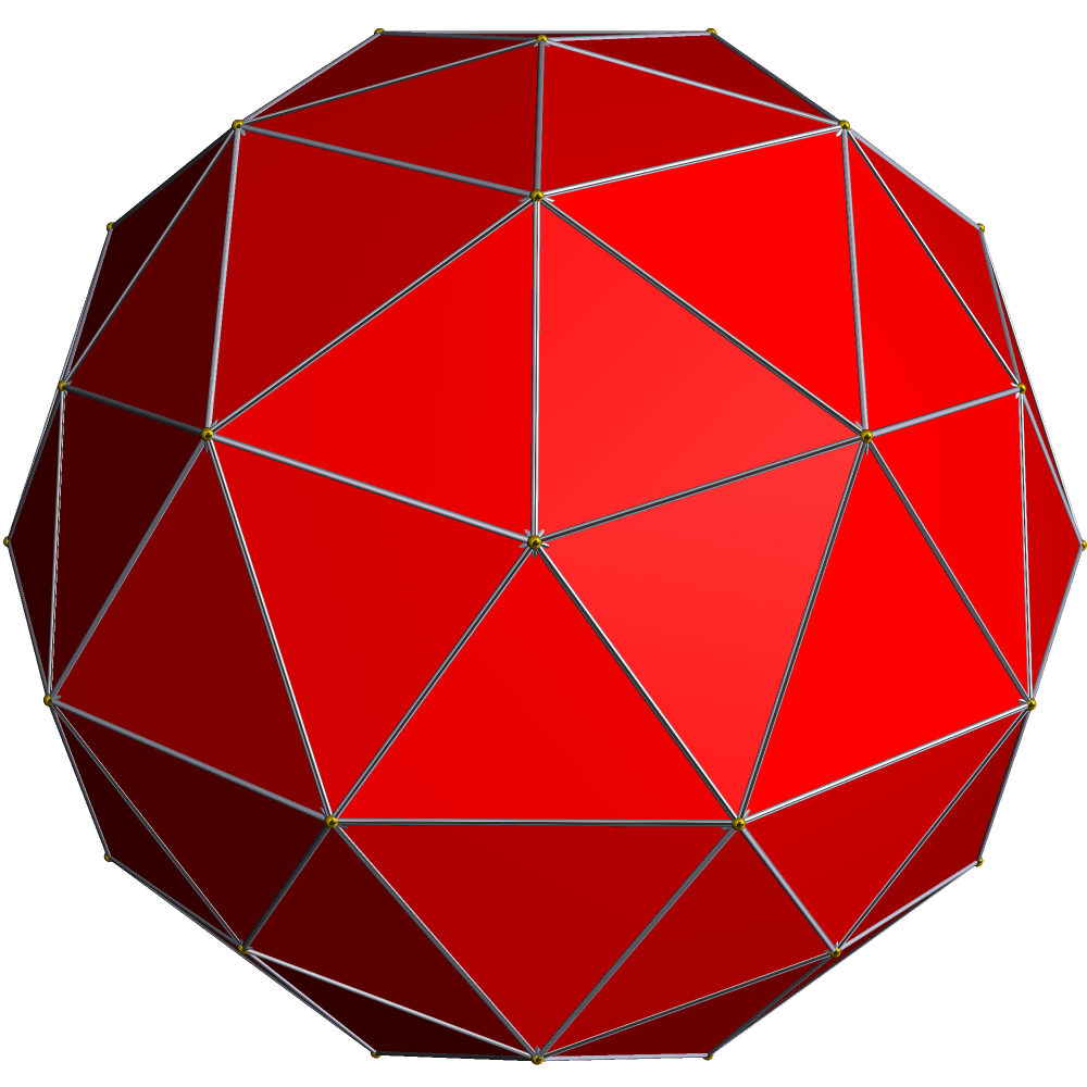 Convex regular polychoron: en:600-cell {3,3,5} - solid, orthogonal projection The copyright holder of this file, Robert Webb, allows anyone to use it for any purpose, provided that the copyright holder is properly attributed. Redistribution, derivative work, commercial use, and all other use is permitted. Attribution: Attribution must be given to Robert Webb's Stella software as the creator of this image along with a link to the website: A complimentary copy of any book or poster using images from the Software would also be appreciated where feasible. This work is free and may be used by anyone for any purpose. If you wish to use this content, you do not need to request permission as long as you follow any licensing requirements mentioned on this page.